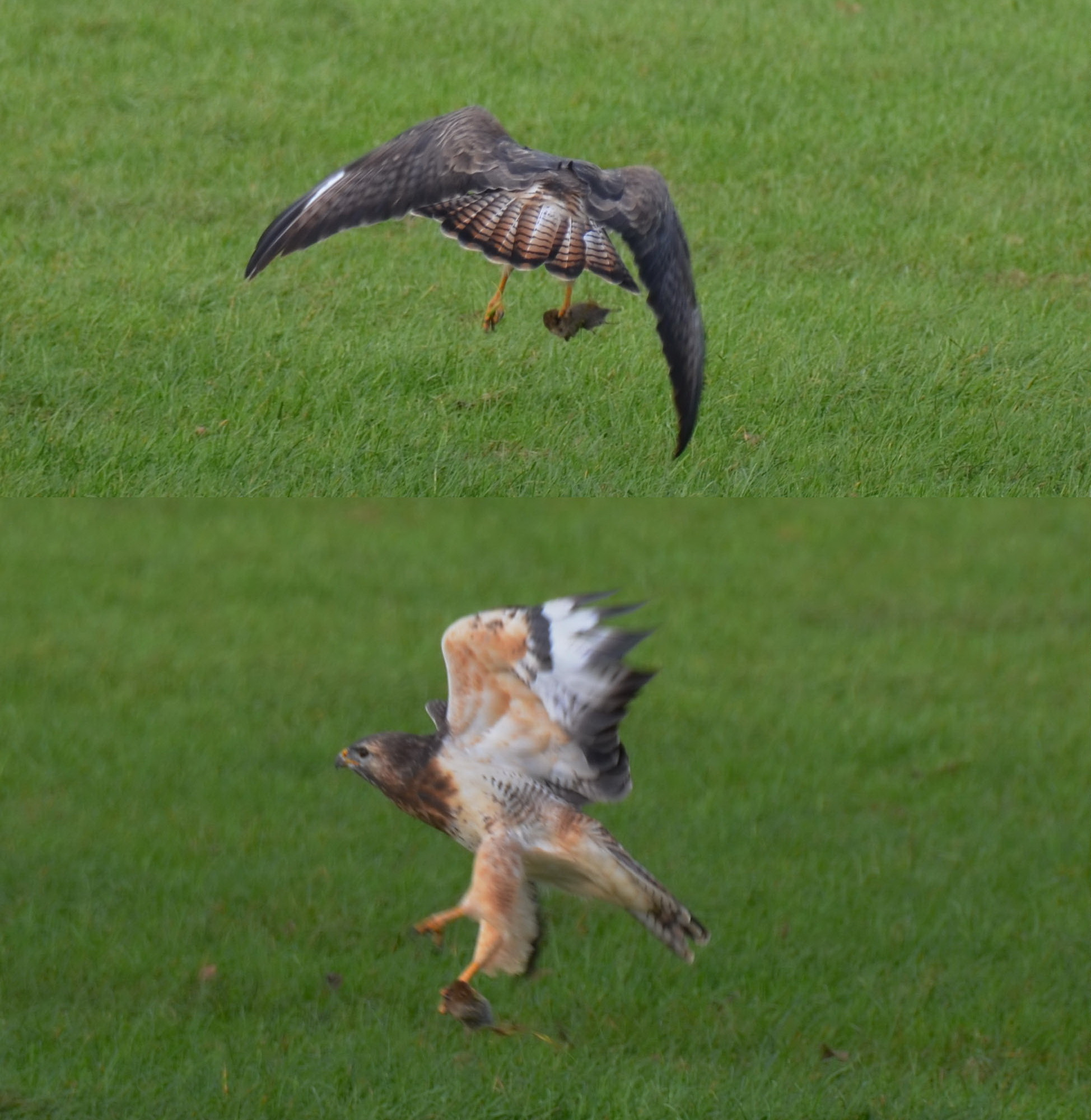 The Buzzard catched a mouse and flies away with his majestic wings